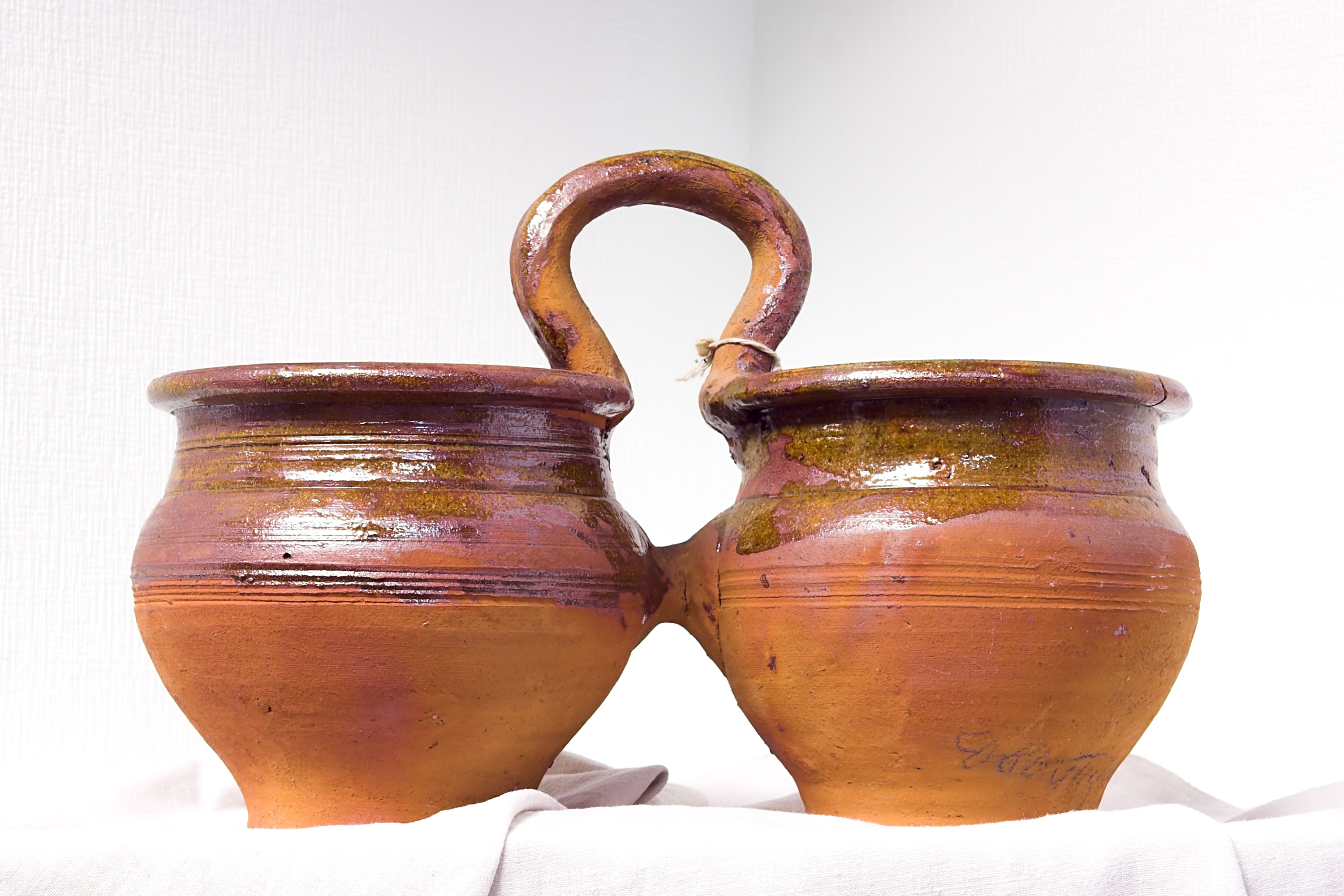 A pair-style cooking pot. Double vessel, «Ganshin Manor» museum (Gorki Pereslavskie village, Pereslavl district of Yaroslavl oblast, Russia)